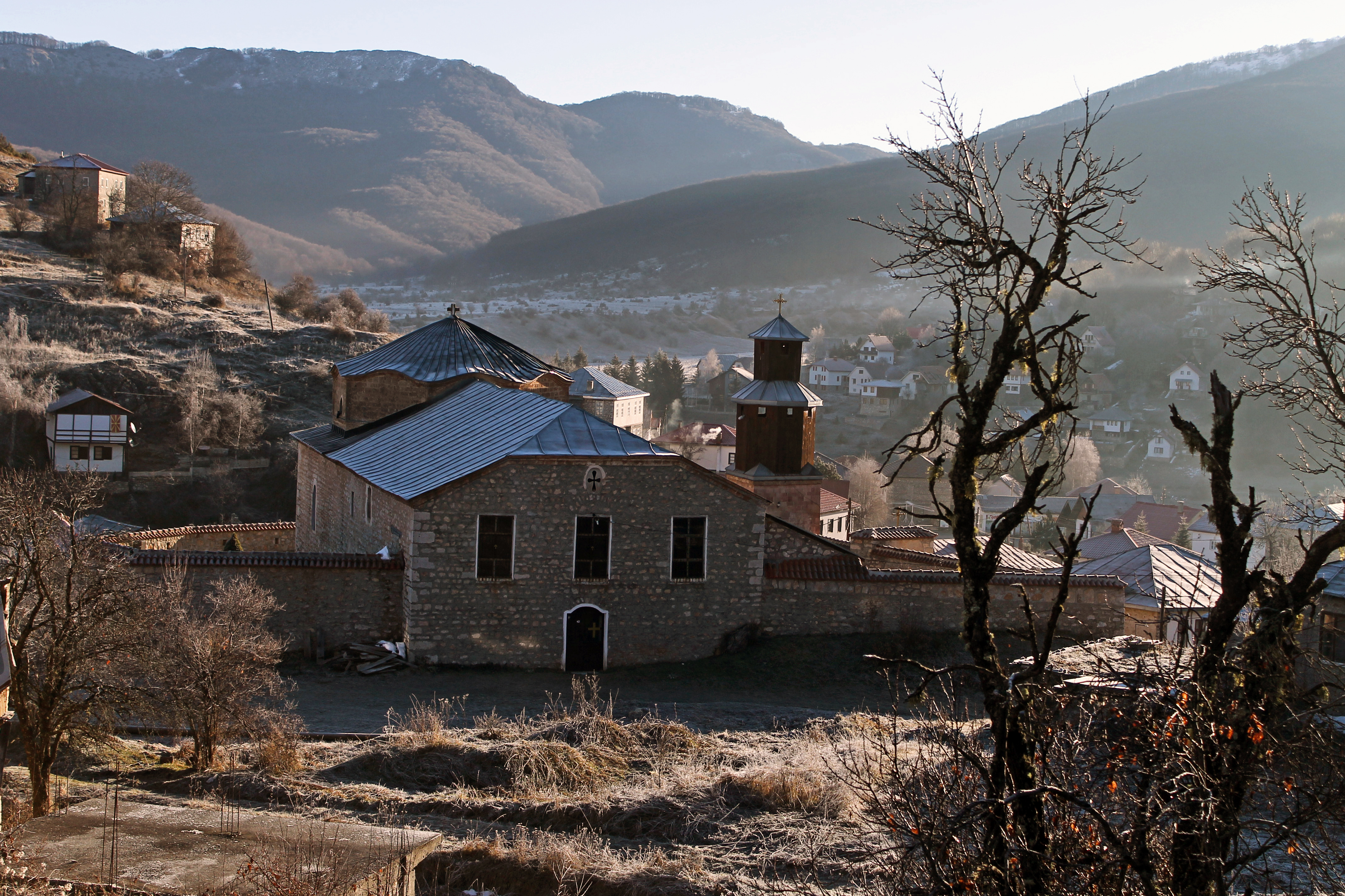 Church of St. George in Lazaropole, Debar region, Macedonia